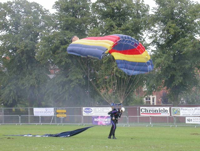 Black Knight Landing. An R.A.F. parachutist at Northampton's 16th Annual Balloon Festival held on The Racecourse. The wind was too rough for the hot air balloons to be inflated for ascent, but this did not deter the Skydivers.